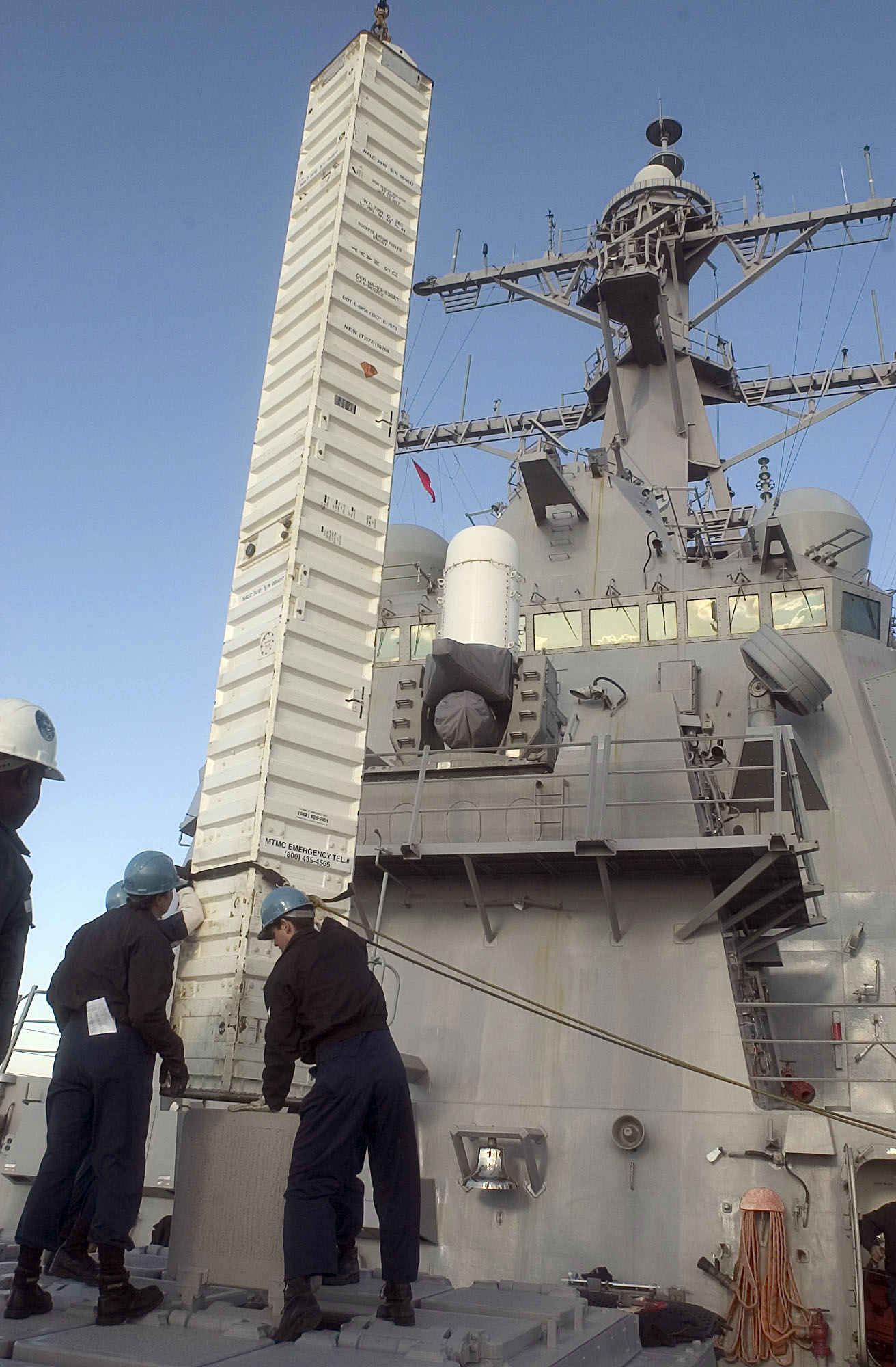 Yokosuka, Japan (Jan. 10, 2005) - Sailors aboard the guided missile destroyer USS Curtis Wilbur (DDG 54) stabilize a crate containing a Tomahawk cruise missile as it is being lifted by a crane and transported to barges during the off-loading of ammunition in preparation for an upcoming Selected Restricted Availability (SRA) period. U.S. Navy photo by Photographer's Mate 2nd Class John L. Beeman (RELEASED)